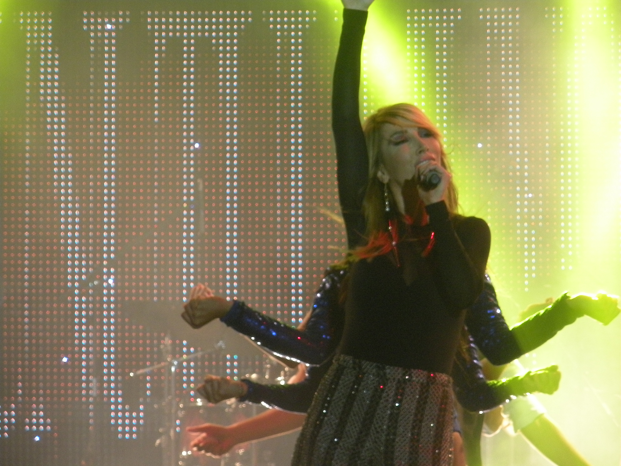 Hande Yener performing "Unutulmuyor" in Çorlu.